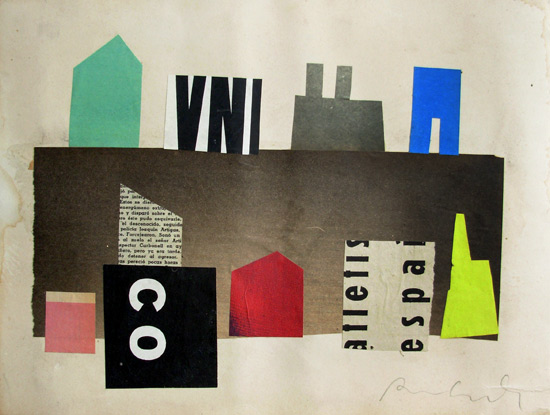 Cartell-zaragossa-collage